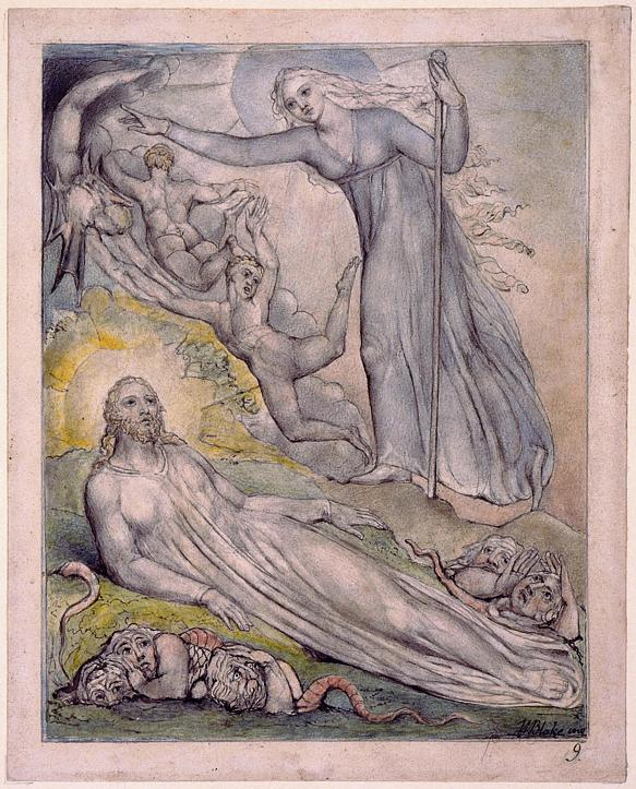 Watercolor Illustration to Milton's Comus by William Blake